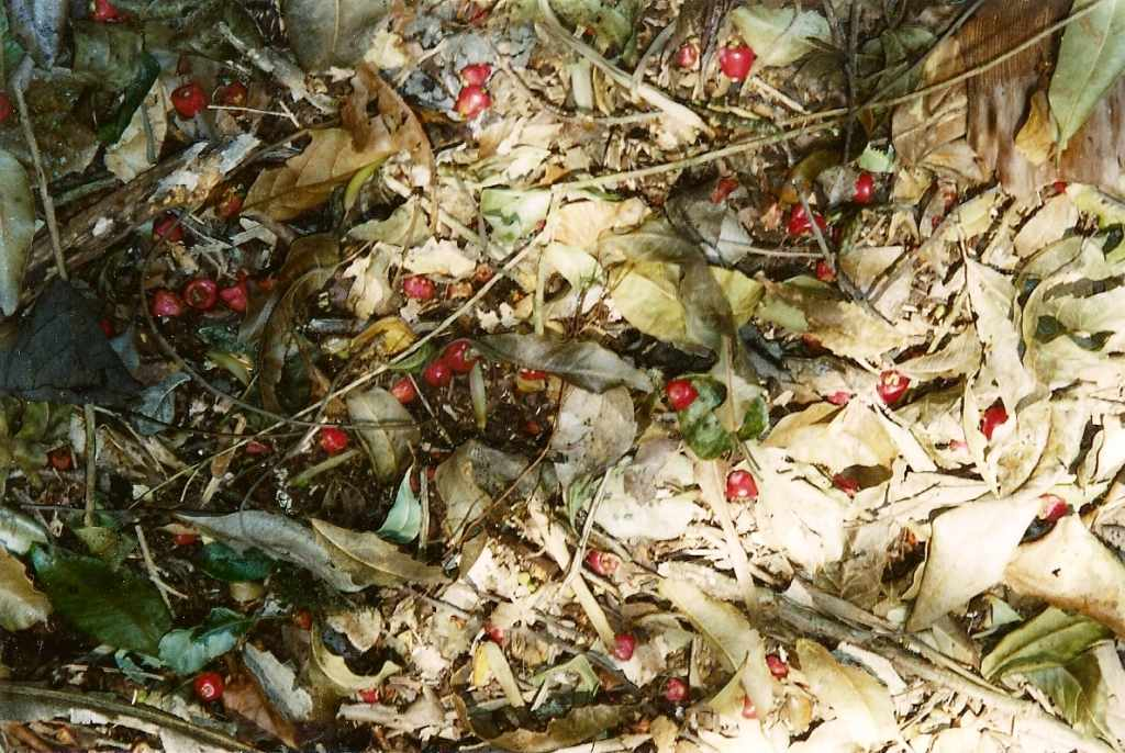 Syzygium_corynanthum_Gumbaynggir_Nature_Reserve_-_fruit